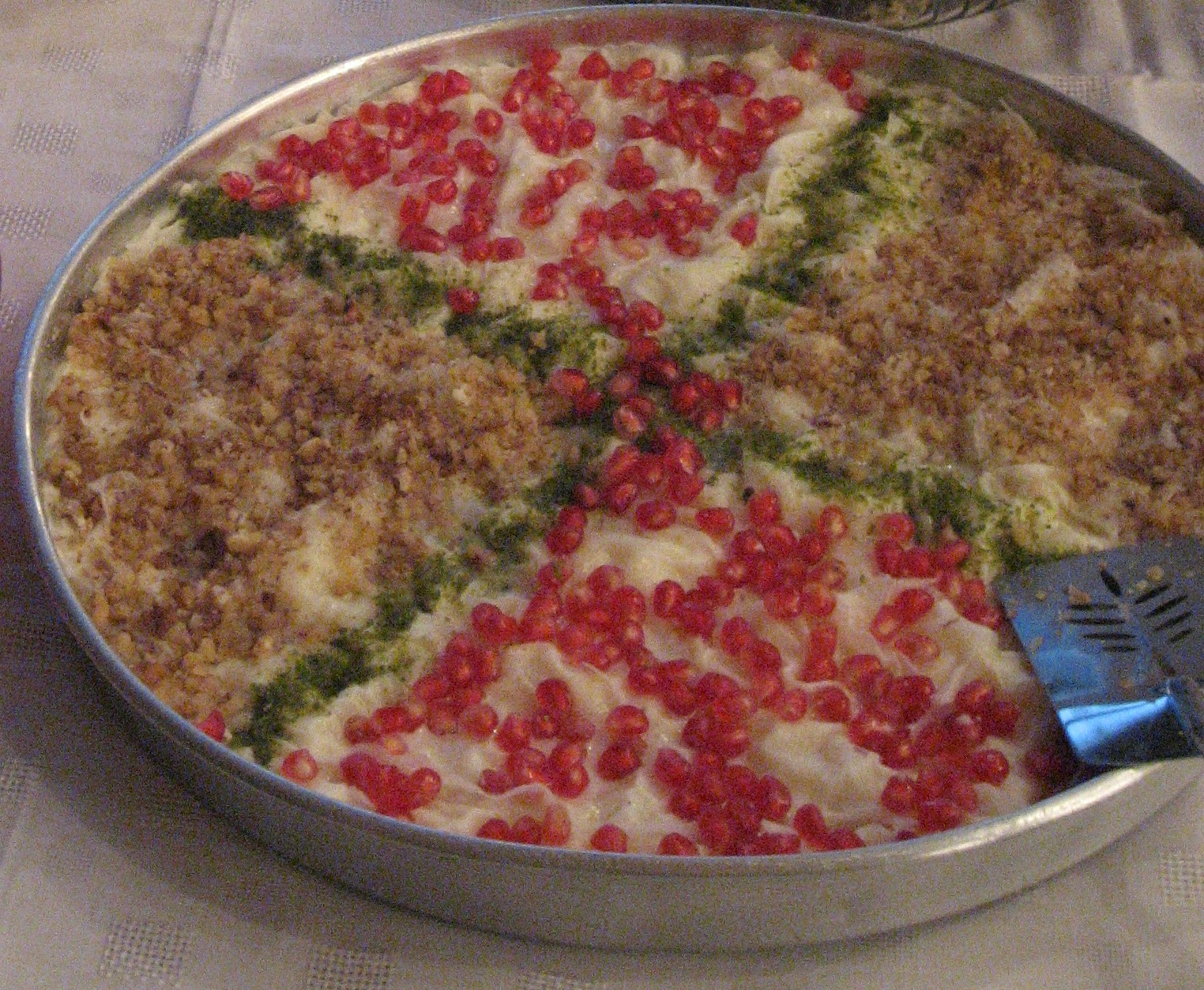 Güllaç. This file has been extracted from another file: Mezes.jpg